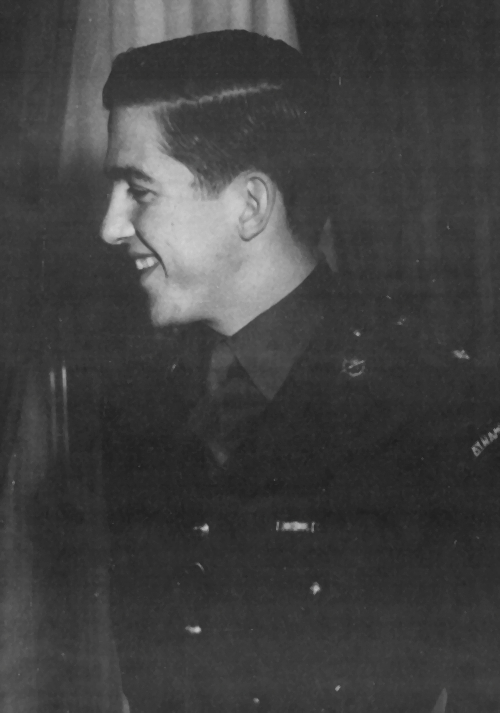 Constantine II of Greece as Crown Prince of Greece, during the visit of US president Dwight Eisenhower.